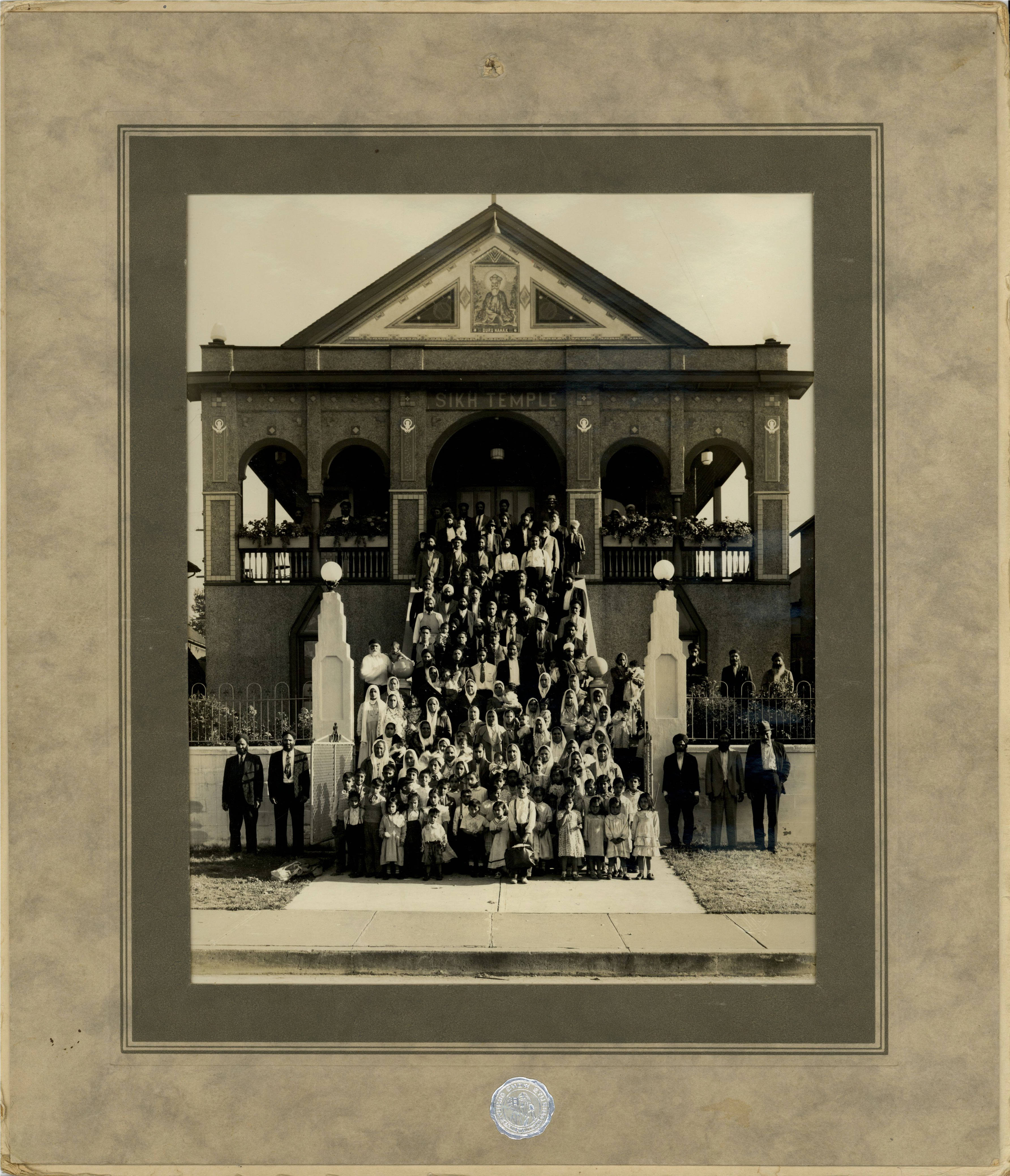 The Khalsa Diwan Society of Sikhs in front of the Sikh Temple at 2nd Avenue in Vancouver.